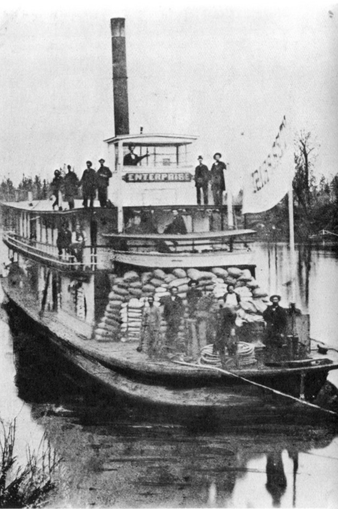 Enterprise, a sternwheeler constructed in 1863 at Canemah, Oregon. The vessel is shown here haulling a cargo in bags, probably wheat, on the Willamette River, somewhere up from Corvallis. This vessel should not be confused with the many other steamboats named Enterprise, including in particular the steamer Enterprise, also built at Canemah,but in 1855, which was no longer on the Willamette River as of 1858. For dates of vessel operation and construction, see Affleck, Edward L., A Century of Paddlewheelers in the Pacific Northwest, the Yukon, and Alaska, Alexander Nicholls Press, Vancouver, BC 2000 ISBN 0-920034-08-X.